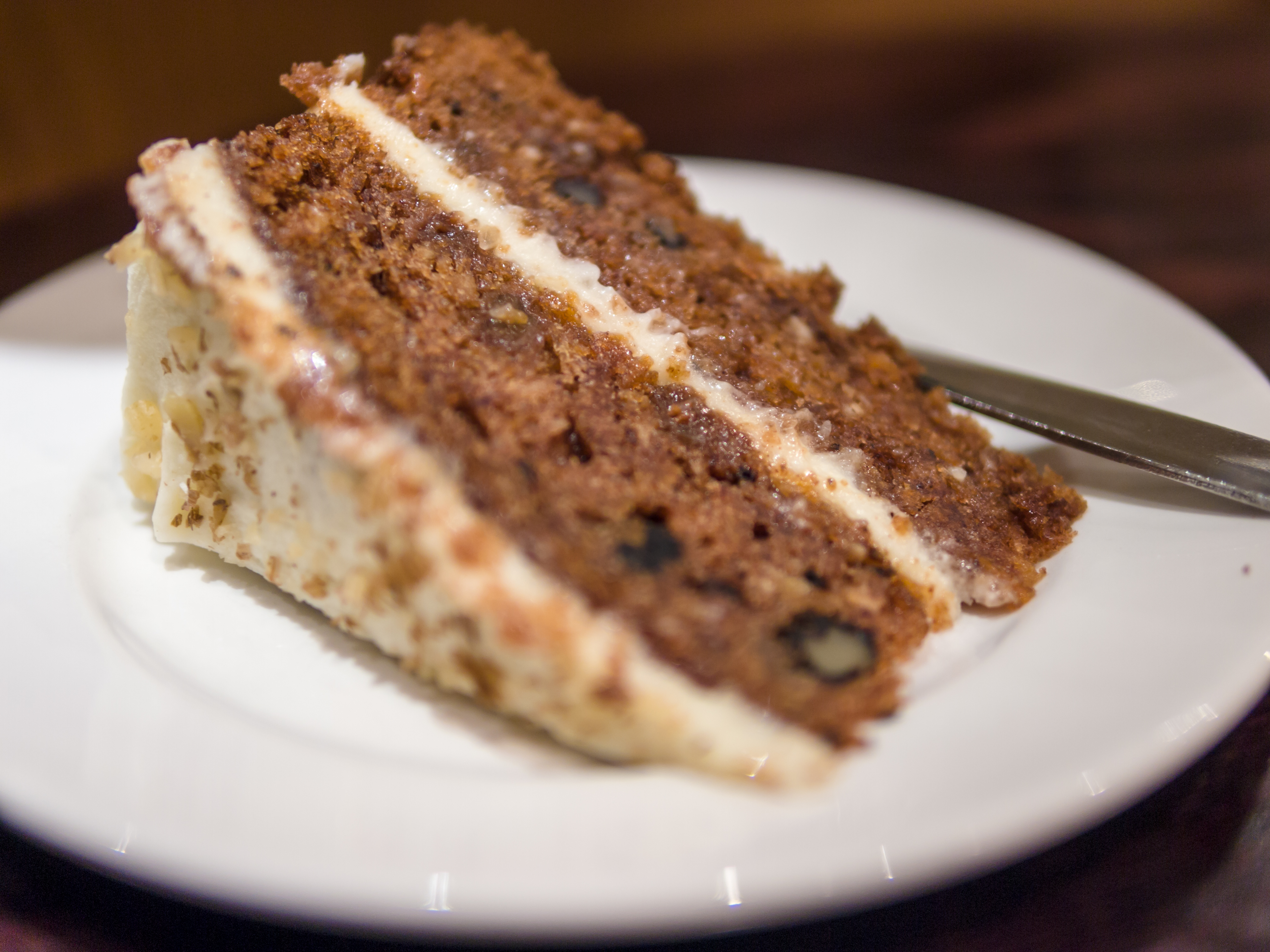 Ready for eating